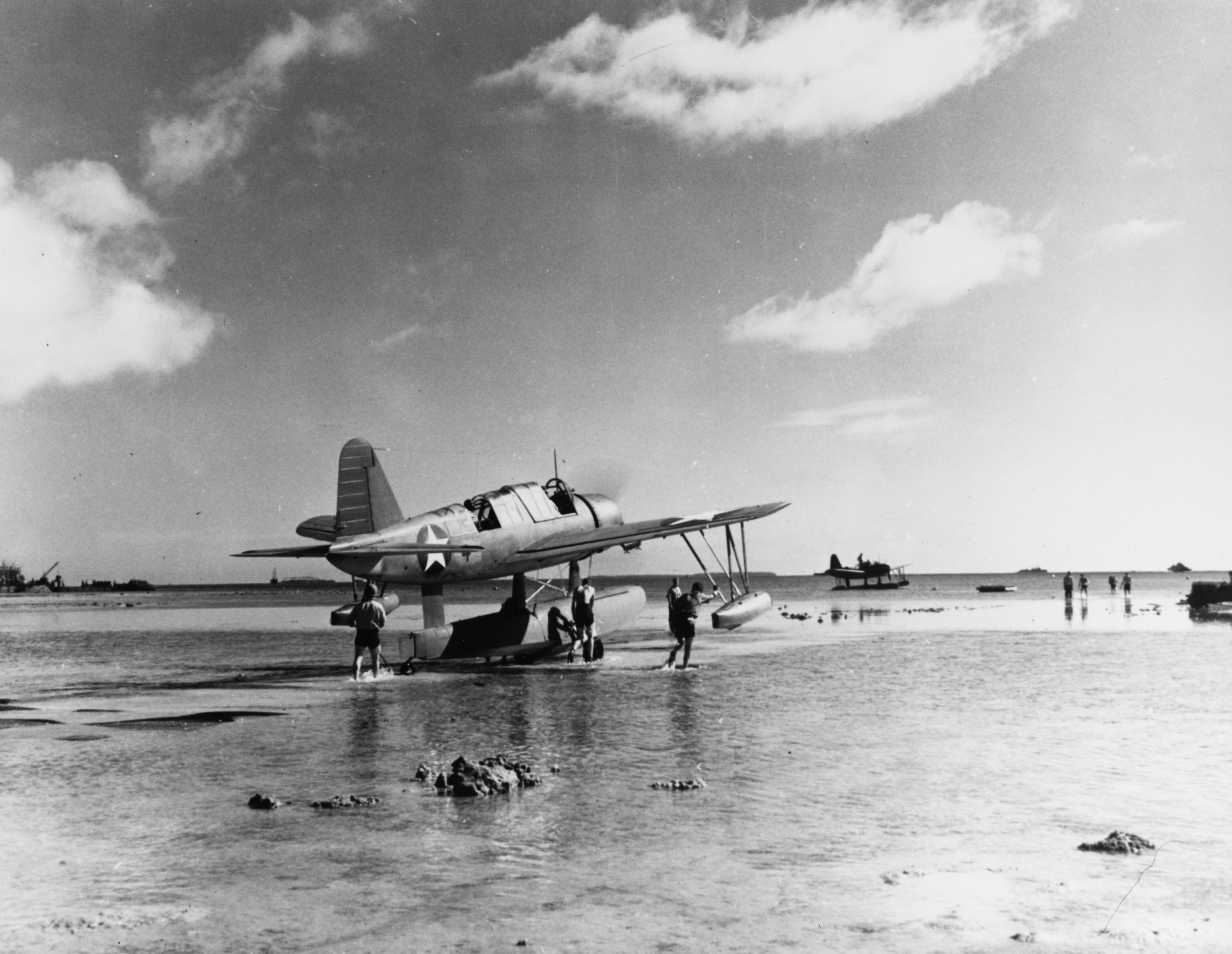 A U.S. Navy Vought OS2U Kingfisher half-way out on the seaplane ramp at Nuku'alofa, Tongatapu, on 8 June 1942. Another Kingfisher is visible in background.